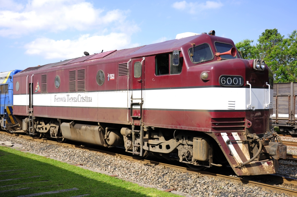 Diesel-Electric Locomotive B12 B-B # 6001 - built by General Motors Diesel to EFVM in 1953 transferred to RFFSA in 1968, currently FTC. Tubarão-SC-Brazil.